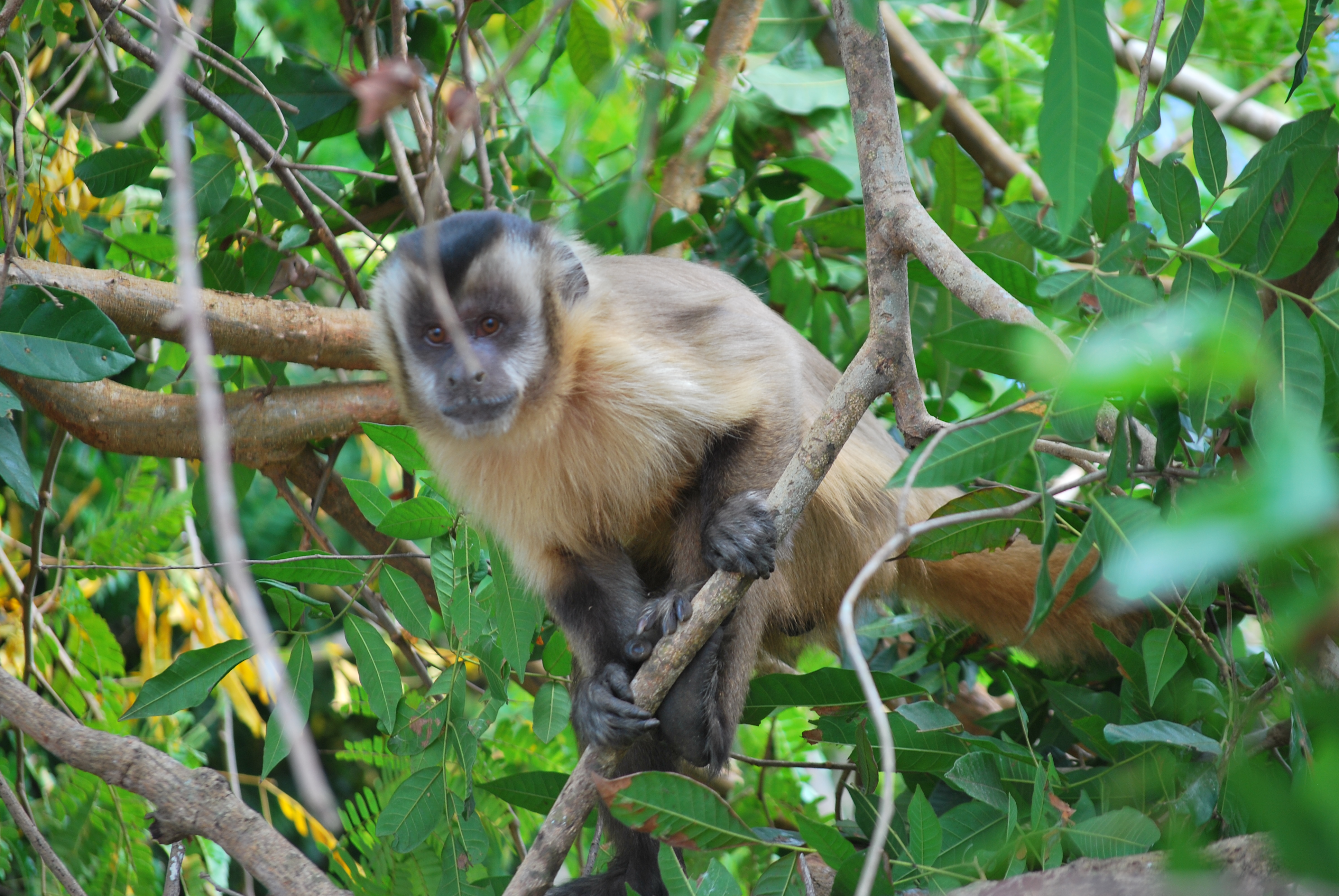 Sapajus libidinosus paraguaynus (S. cay) in Porto Cercado, Cuiabá river, Pantanal of Mato Grosso do Sul, Brazil.